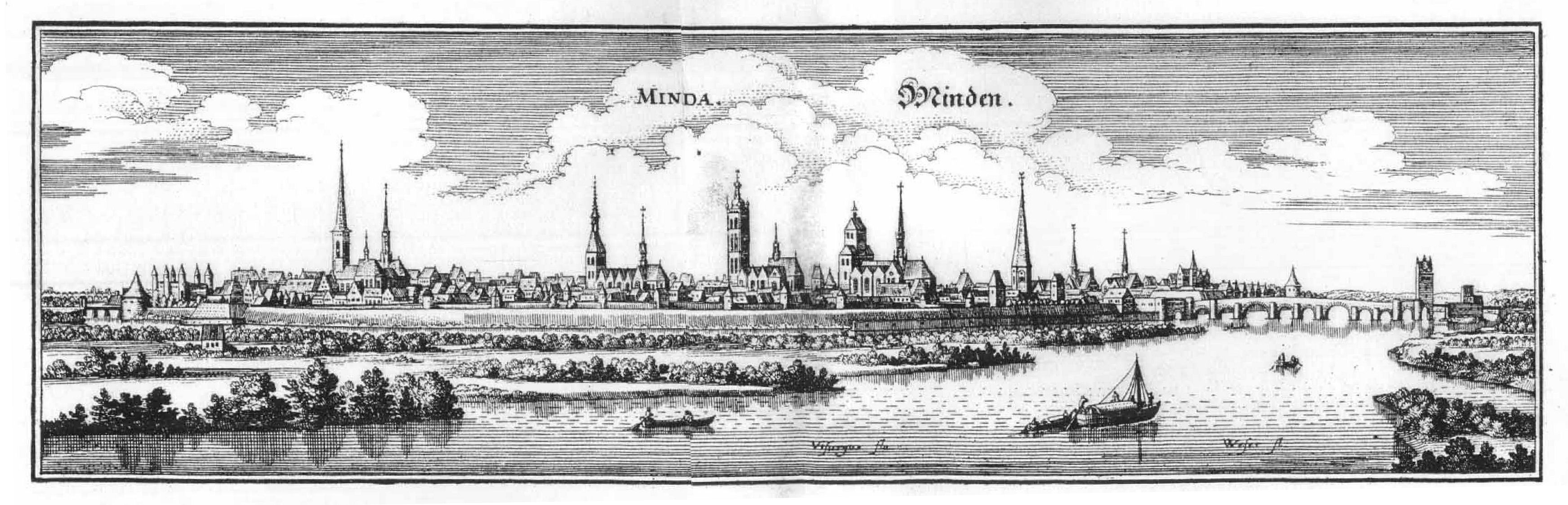 This is a scan of the historical document: Source